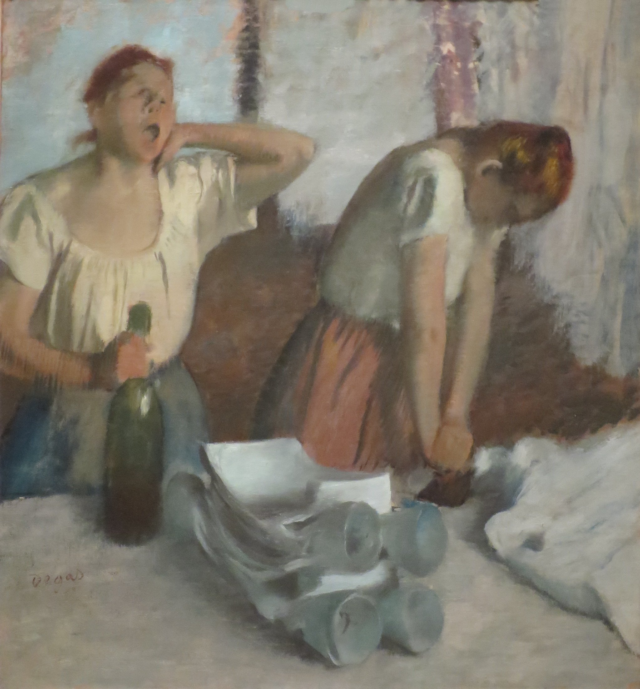 Women Ironing by Edgar Degas, c. 1884, oil on canvas, Norton Simon Museum